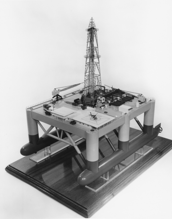 Model of the Mohole drilling platform by Brown & Root Collection of Scripps Institution of Oceanography Photographs